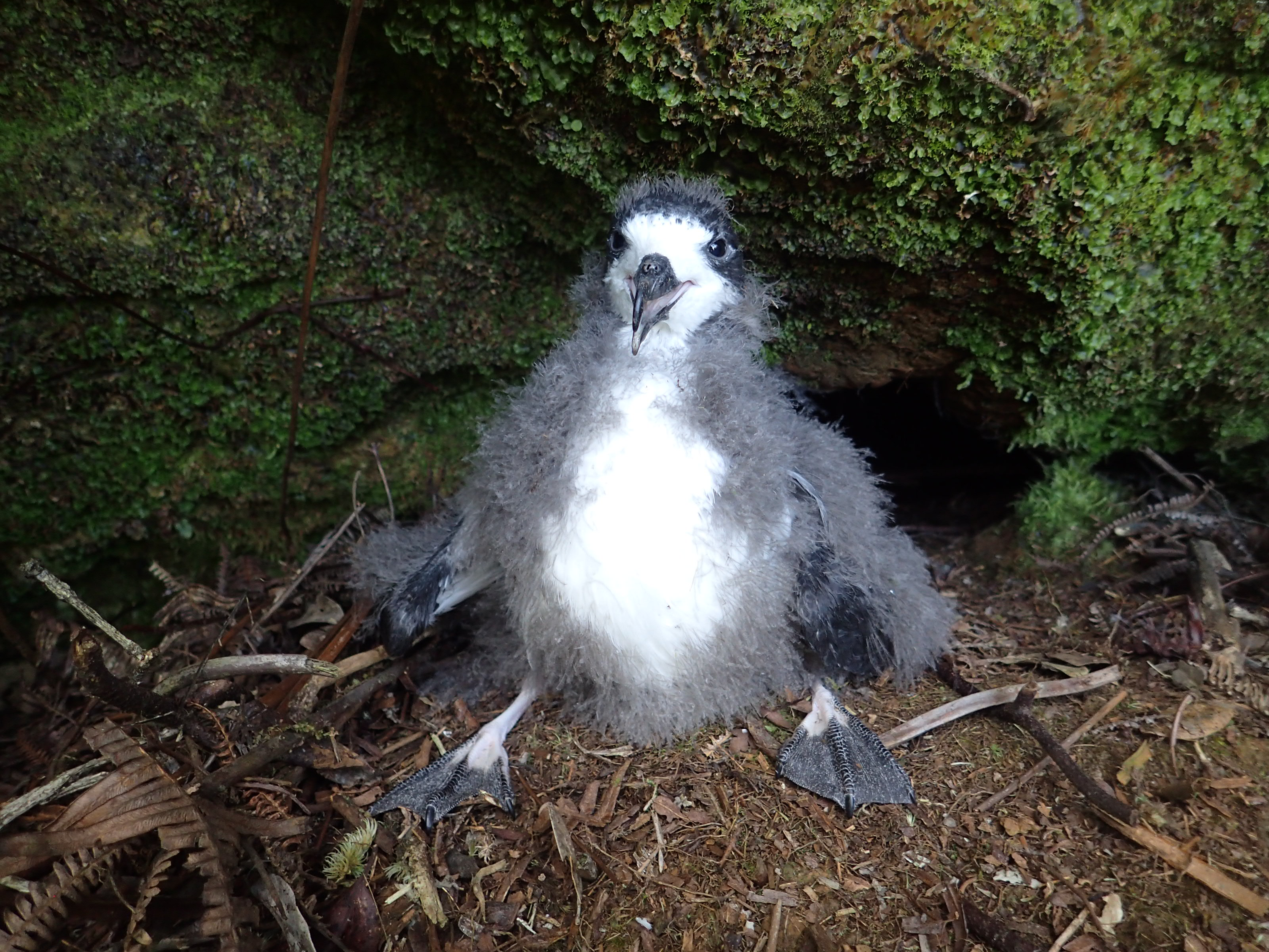 After being dropped by helicopter on to the mountain, the translocation teams headed for nest burrows that had been monitored throughout the breeding season. Each burrow contained a large, healthy chick.